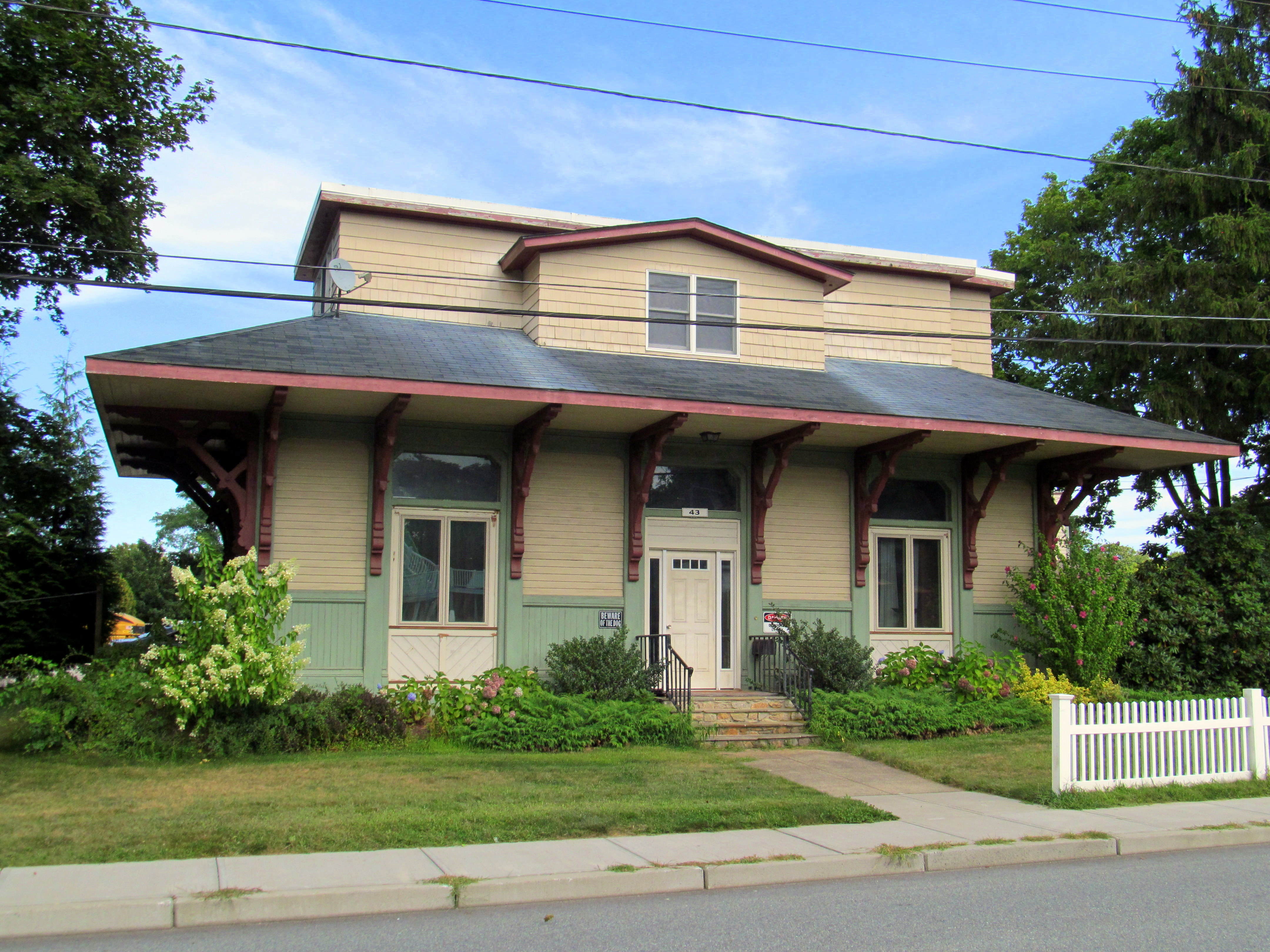 The former Peace Dale depot of the Narragansett Pier Railroad, built in 1876.